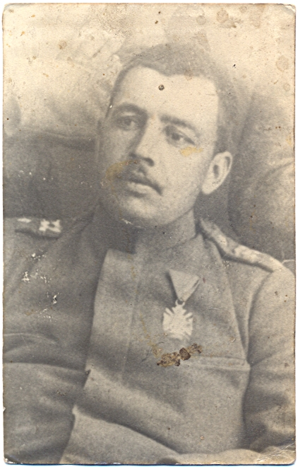 Bulgarian communist Petko Enev (1889-1925)